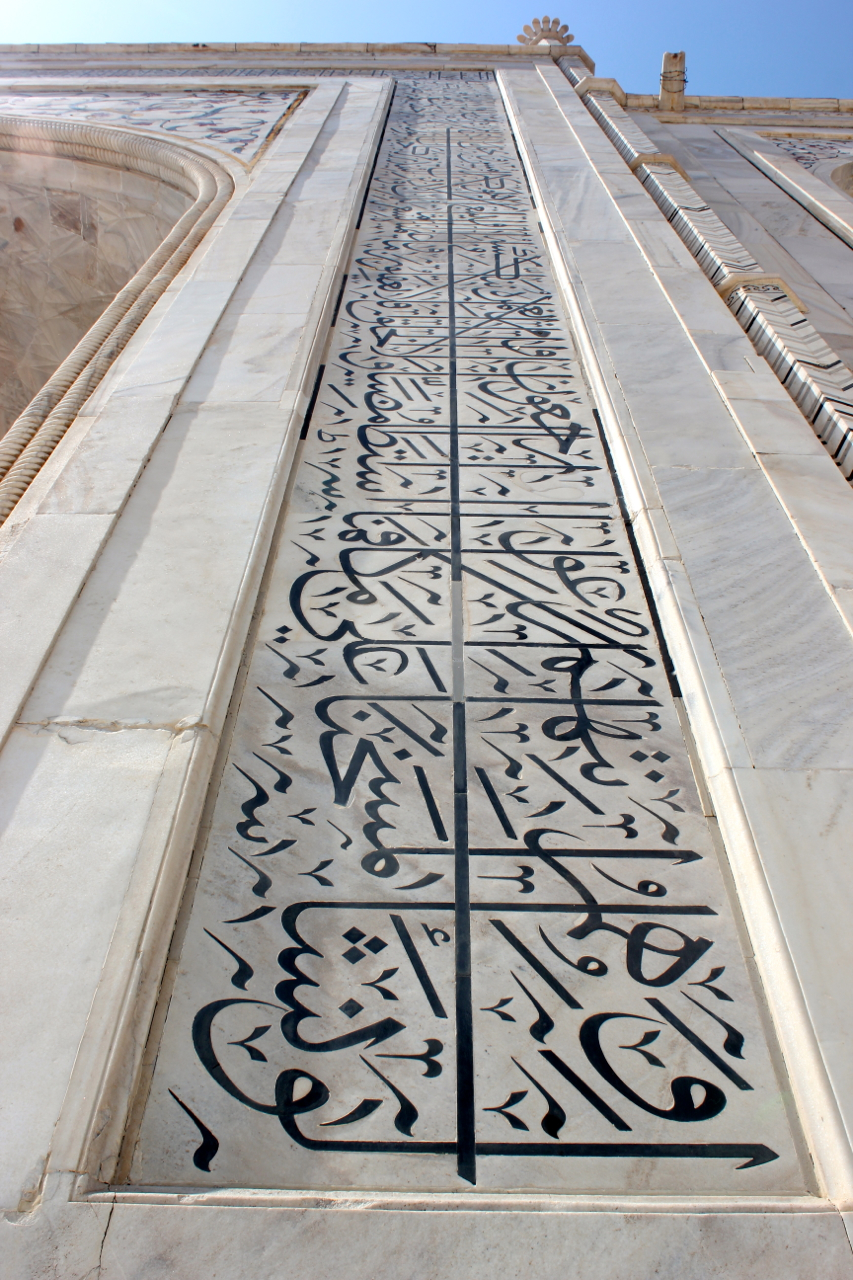 Calligraphy of Taj Mahal